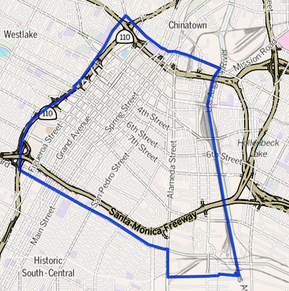 Map of Downtown Los Angeles, California, as outlined by the Los Angeles Times. Other information Boundary map as drawn by the Los Angeles Times on a CC-by-SA background. Note at bottom right of map on the L.A. Times website noted above says "CC-by-SA" (which gives permission to use the map). There is a link there to which explains the meaning thereof. The base map is credited to The Times spells all this out at